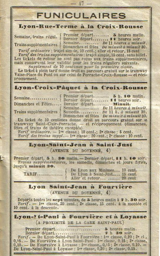 Timetable and fees of Lyon's funiculars, summer 1905.